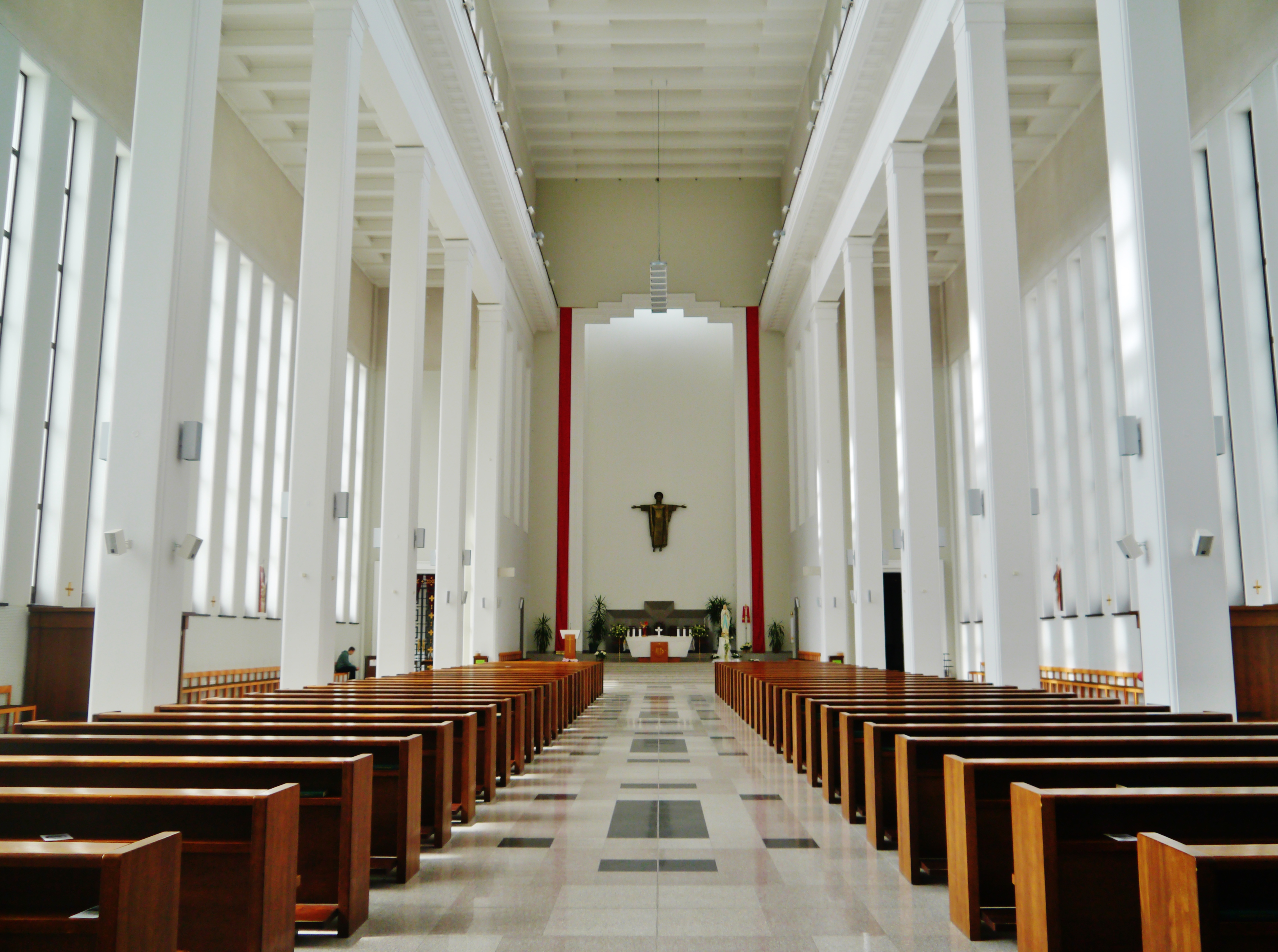 Nave of the Church of Christ's Resurrection, Kaunas, Lithuania